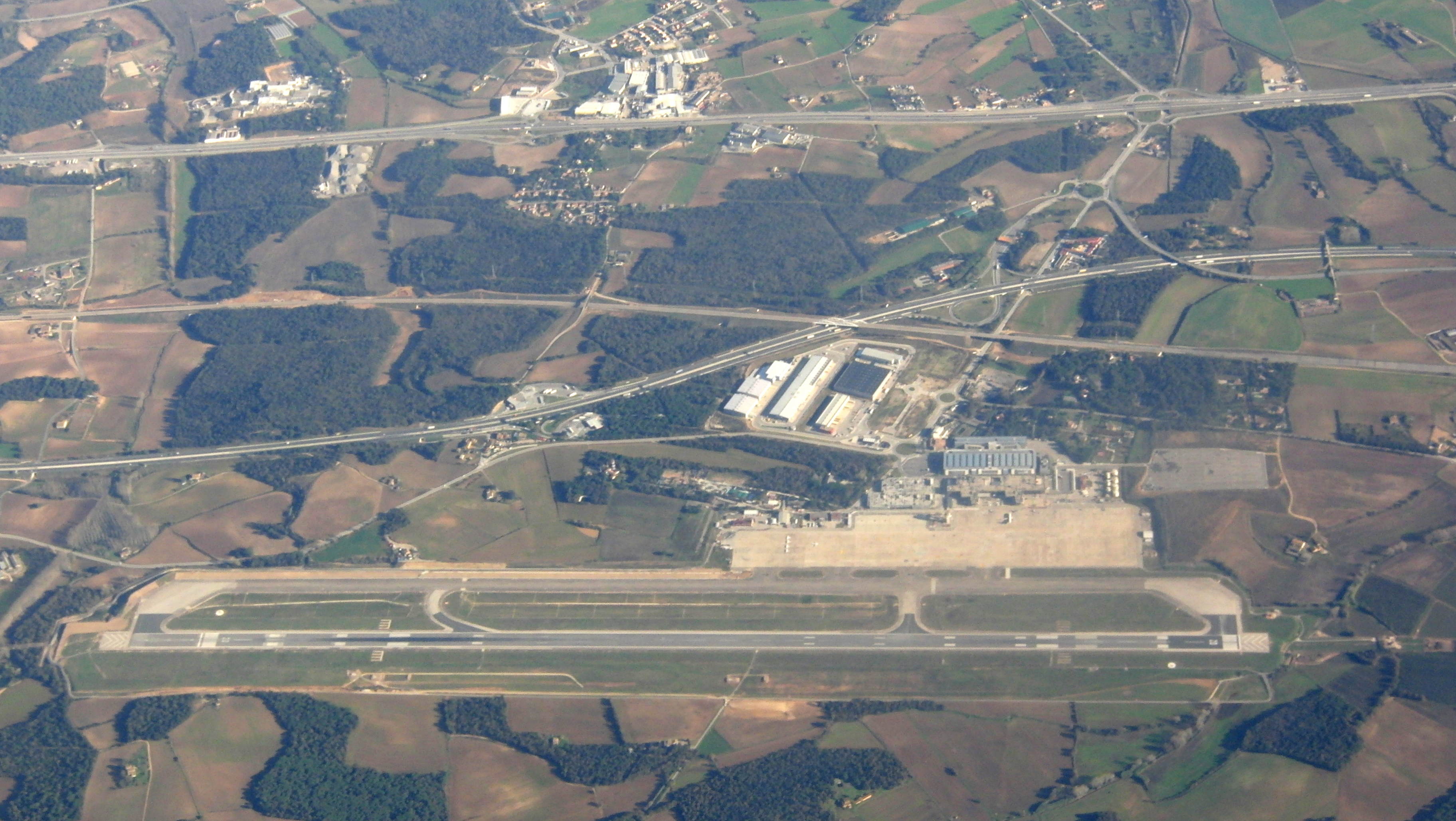 View from a plane on the Costa Brava Airport in Girona, Spain